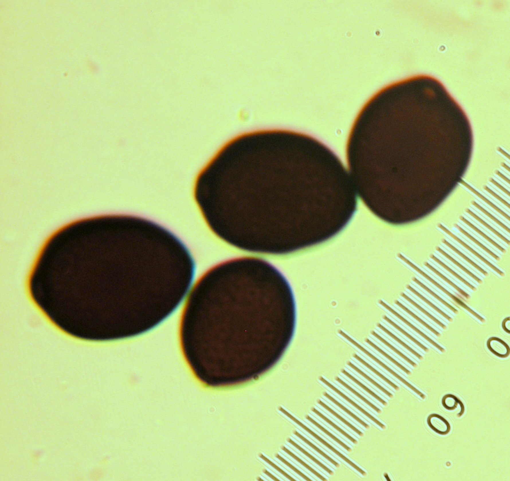 Coprinopsis nivea (Pers.) Redhead, Vilgalys & Moncalvo Image location: Bay View Trialhead, Point Reyes National Seashore, Marin Co., California, USA Growing on horse dung. Spores ~ 15 X 11.5 microns. Recognized by sight For more information about this, see the observation page at Mushroom Observer.